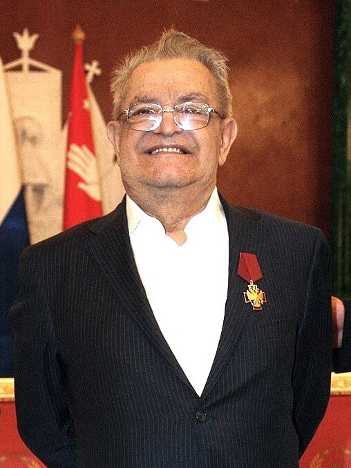 Fazil Iskander in Kremlin, 2010